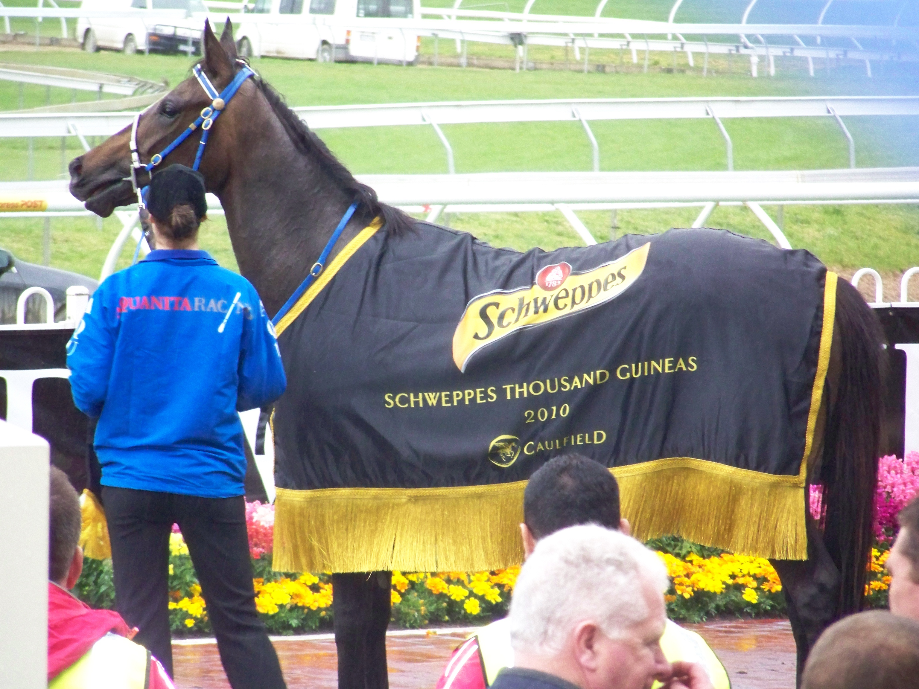 Yosei wearing winner's blanket for the 2010 Thousand Guineas race at Caulfield.